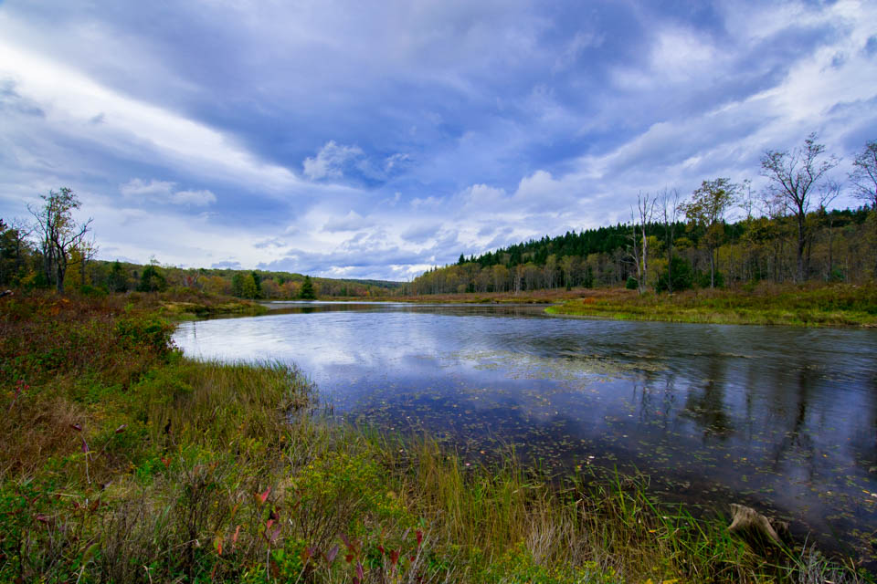 Pendleton Lake, Blackwater Falls State Park, Tucker County, West Virginia, USA (Photo by Allen B. Withers)